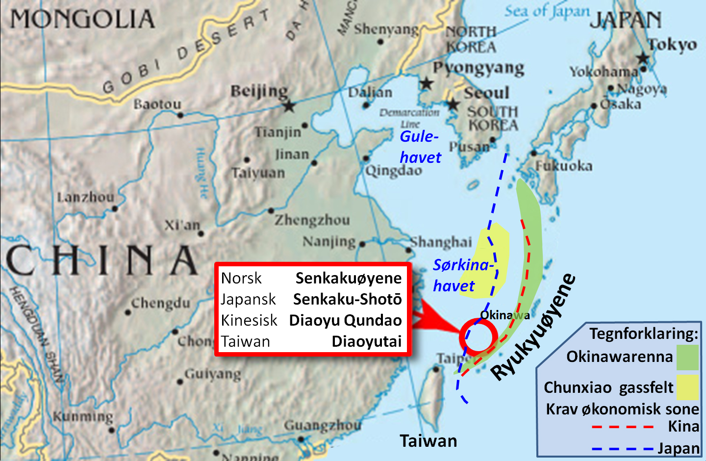 Created in Adobe Illustrator CS using a source map from the CIA of the United States government.